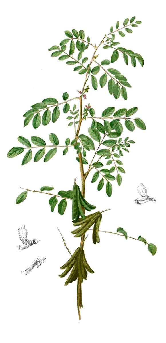 Plate from book